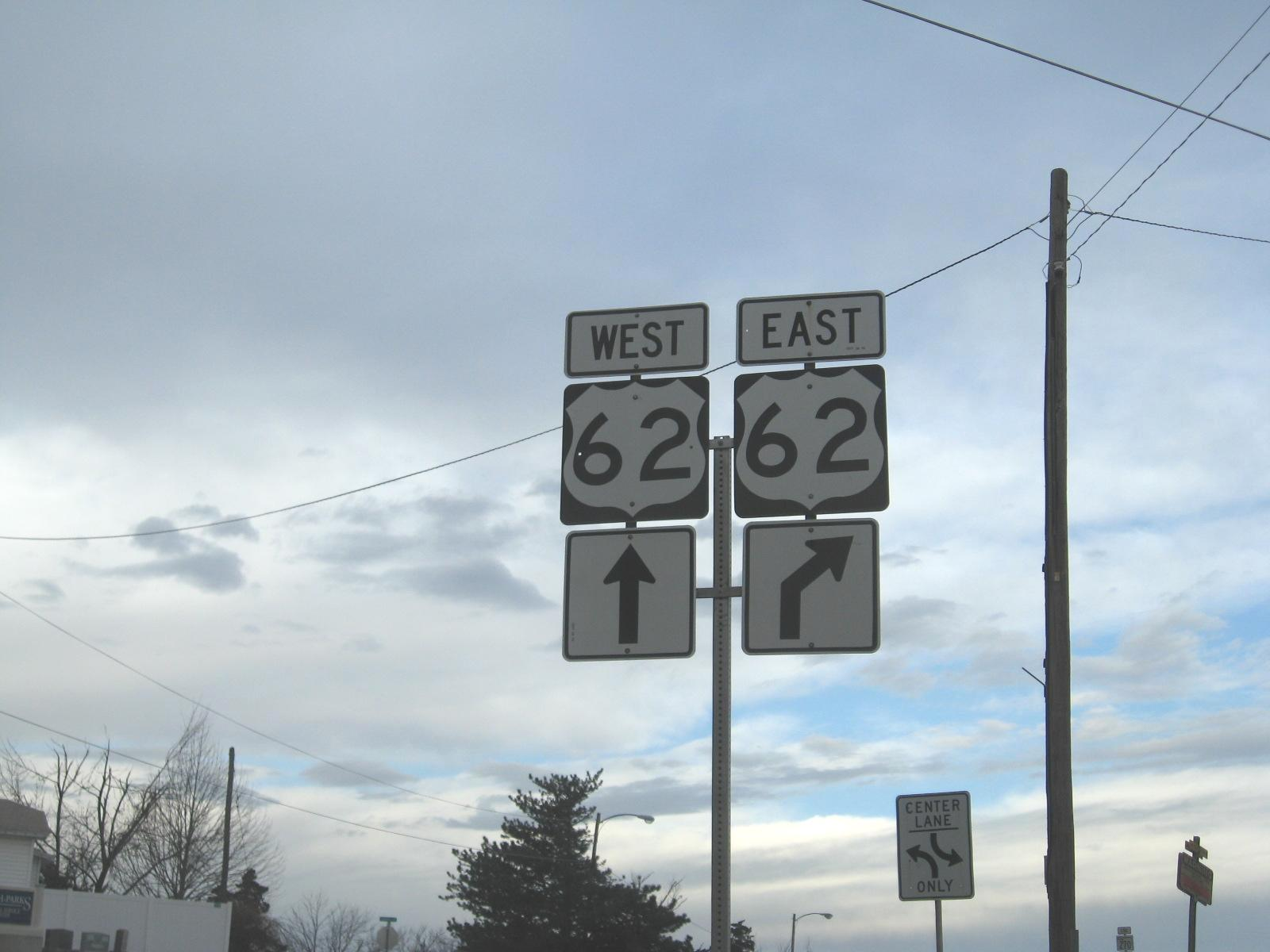 Signage for U.S. Route 62 in Harrah, Oklahoma at the western terminus of SH-270.